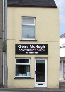 Gerry McHugh Constituency Office, Enniskillen It is located at Queens Street